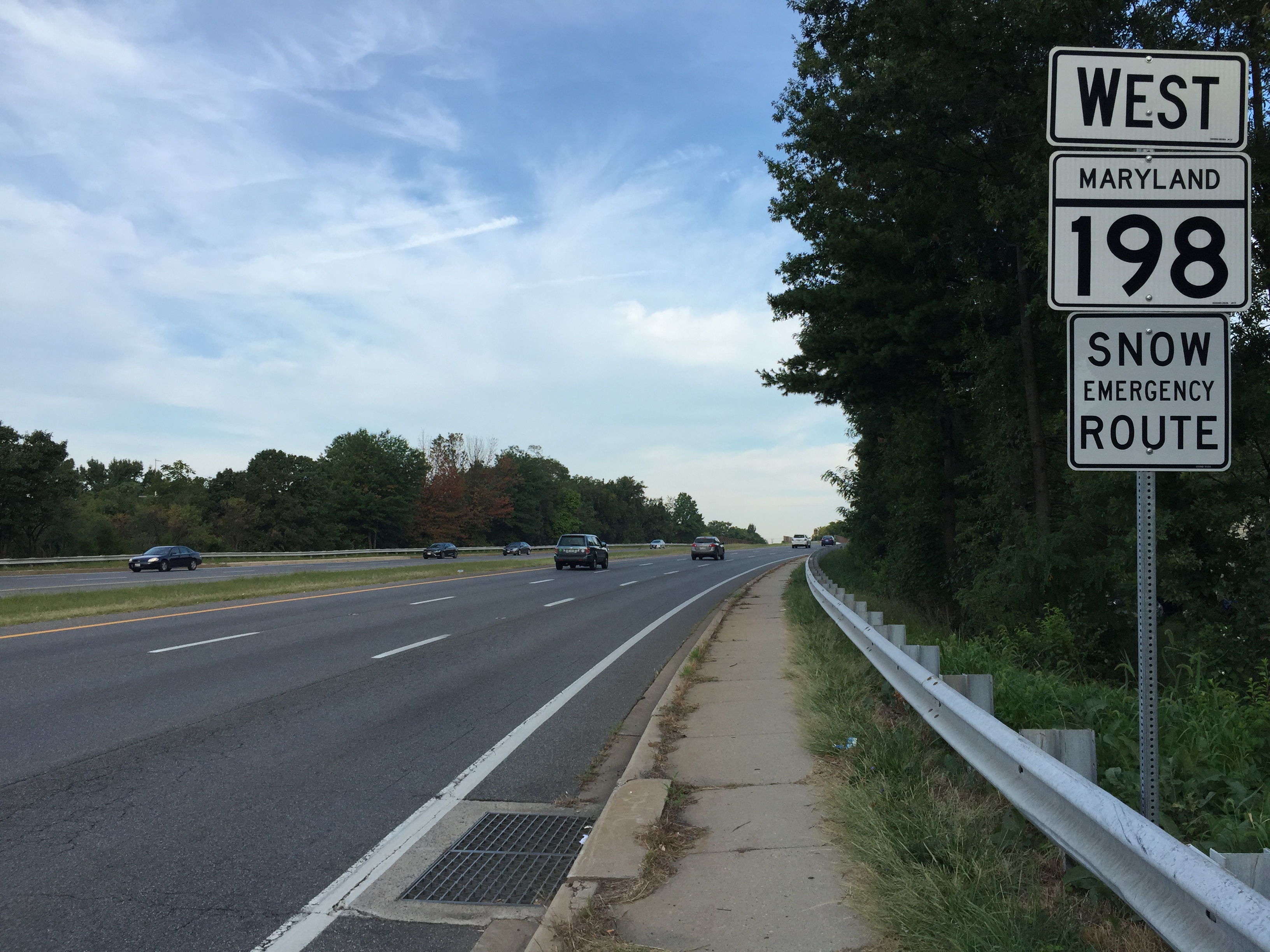 View west along Maryland State Route 198 (Fort Meade Road) at Maryland State Route 197 (Laurel-Bowie Road) in Laurel, Prince Georges County, Maryland